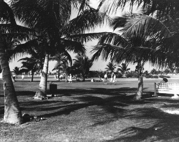 Cropped photo of a golf course in the Bayshore neighborhood of Miami Beach